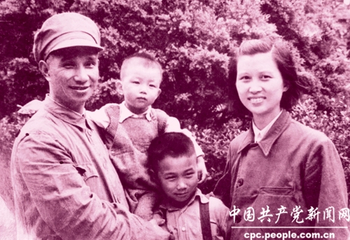 Su Yu and his family members including his wife Chu Qing, his sons Su Rongsheng and Su Hansheng in Shangai, China, 1949. 中文（中国大陆）: 1949年9月，粟裕、楚青和儿子粟戎生、粟寒生在上海合影。